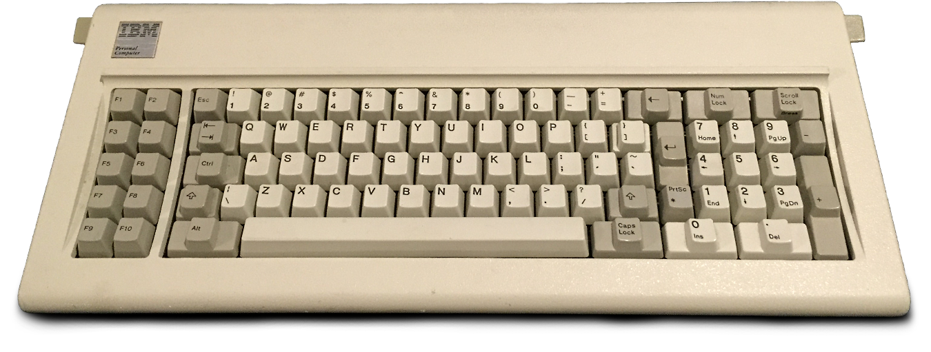 The IBM Model F released for the IBM PC 5150 featuring the XT protocol.